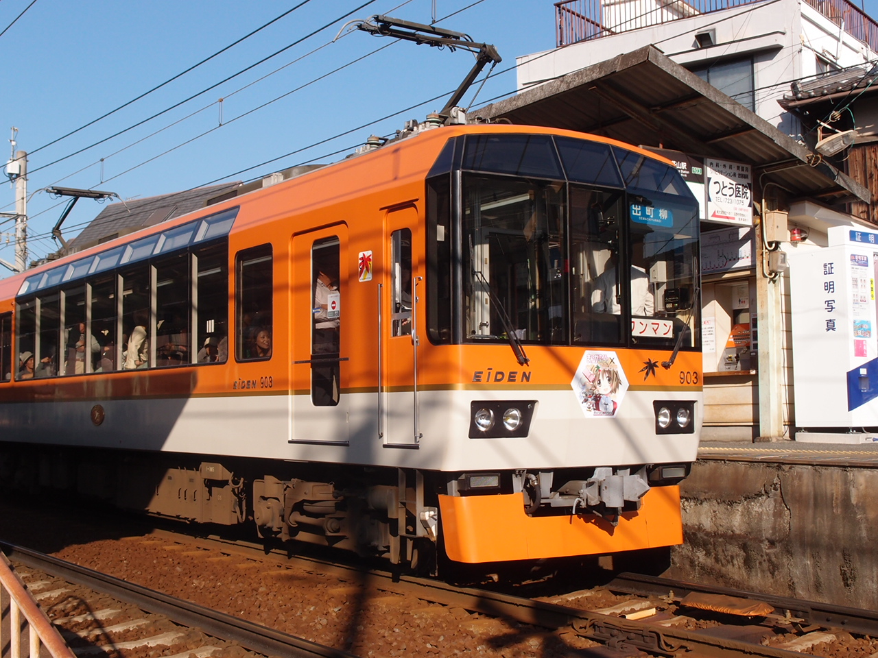 The train Eiden Deo903 『Manga Time Kirara×Kirara』』 stopping at Chayama Station.